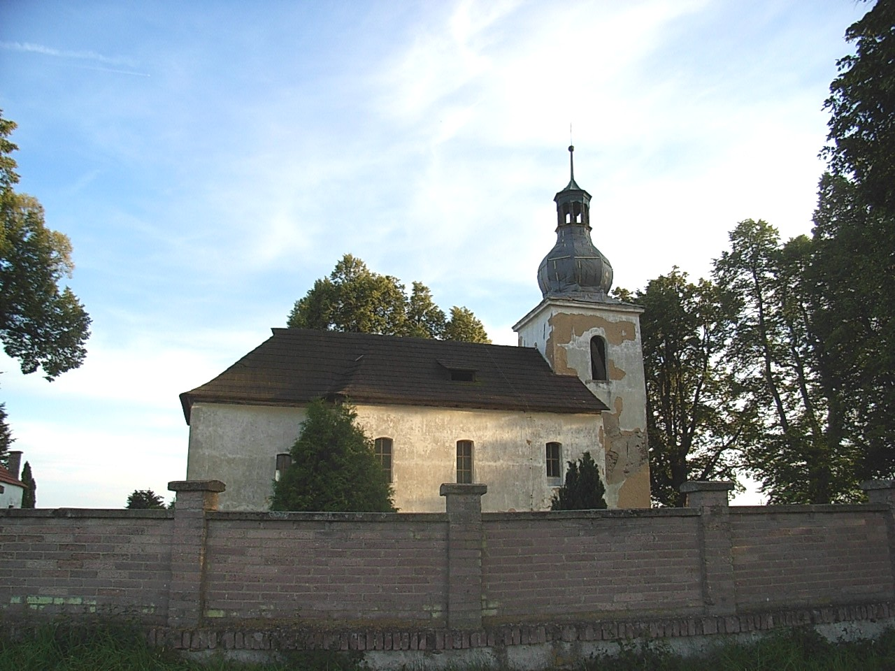 kostel sv. Mikuláše